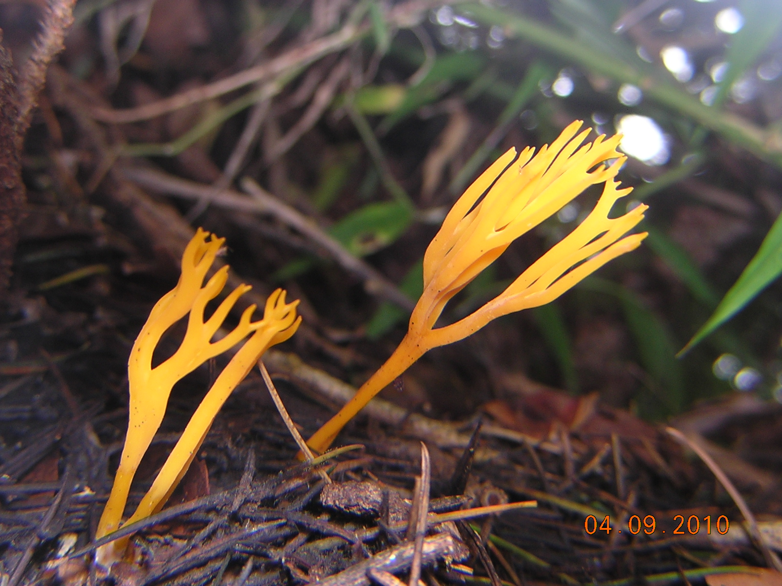 Ramariopsis crocea (Pers.) Corner Image location: Kalatope wildlife Sanctuary, Dalhousie, Himachal Pradesh, India Recognized by sight For more information about this, see the observation page at Mushroom Observer.